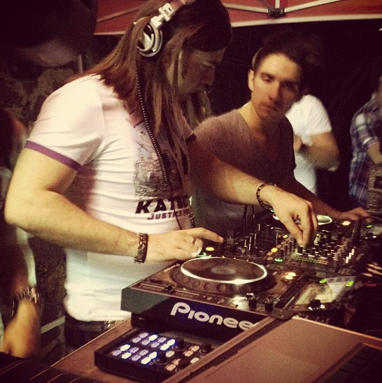 Simon Beta plays live